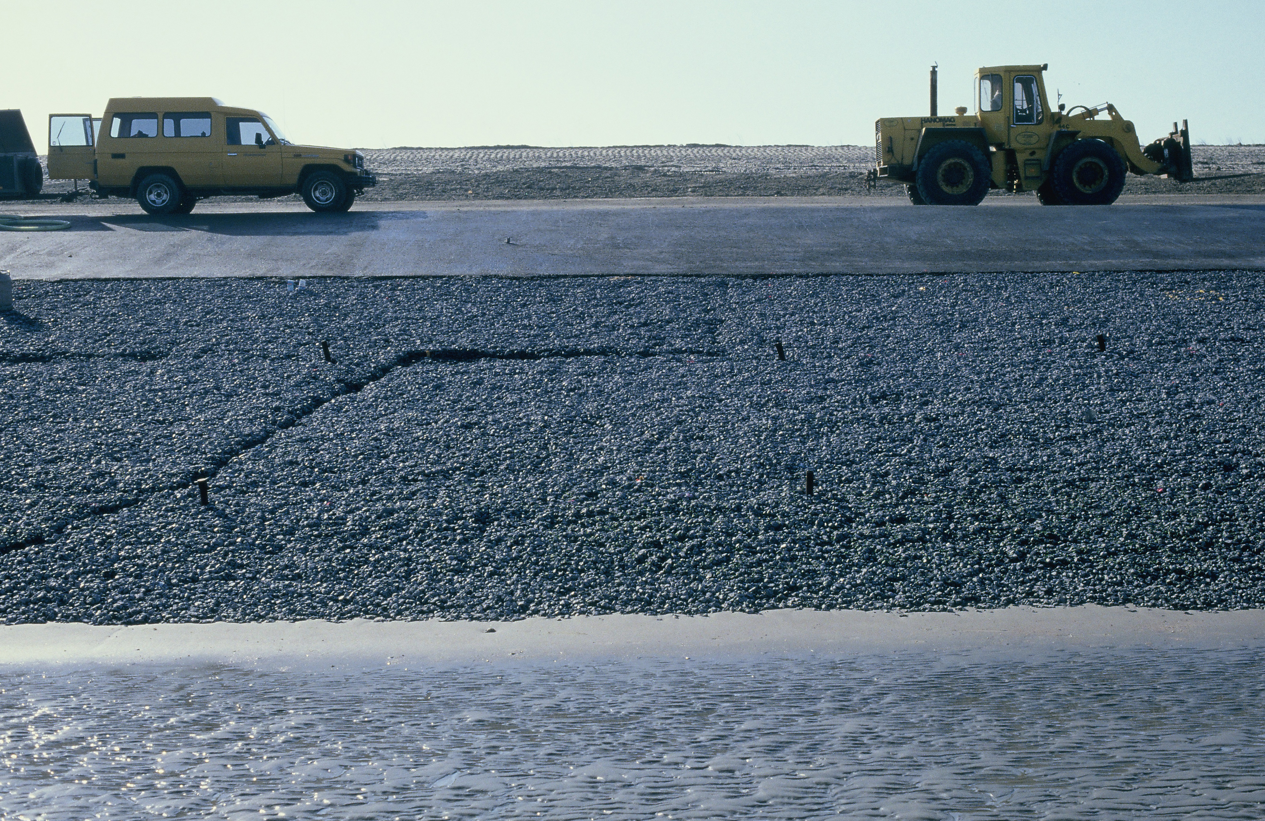 Damage to a revetment of open colloidal concrete on a dike section near Breskens, Netherlands.